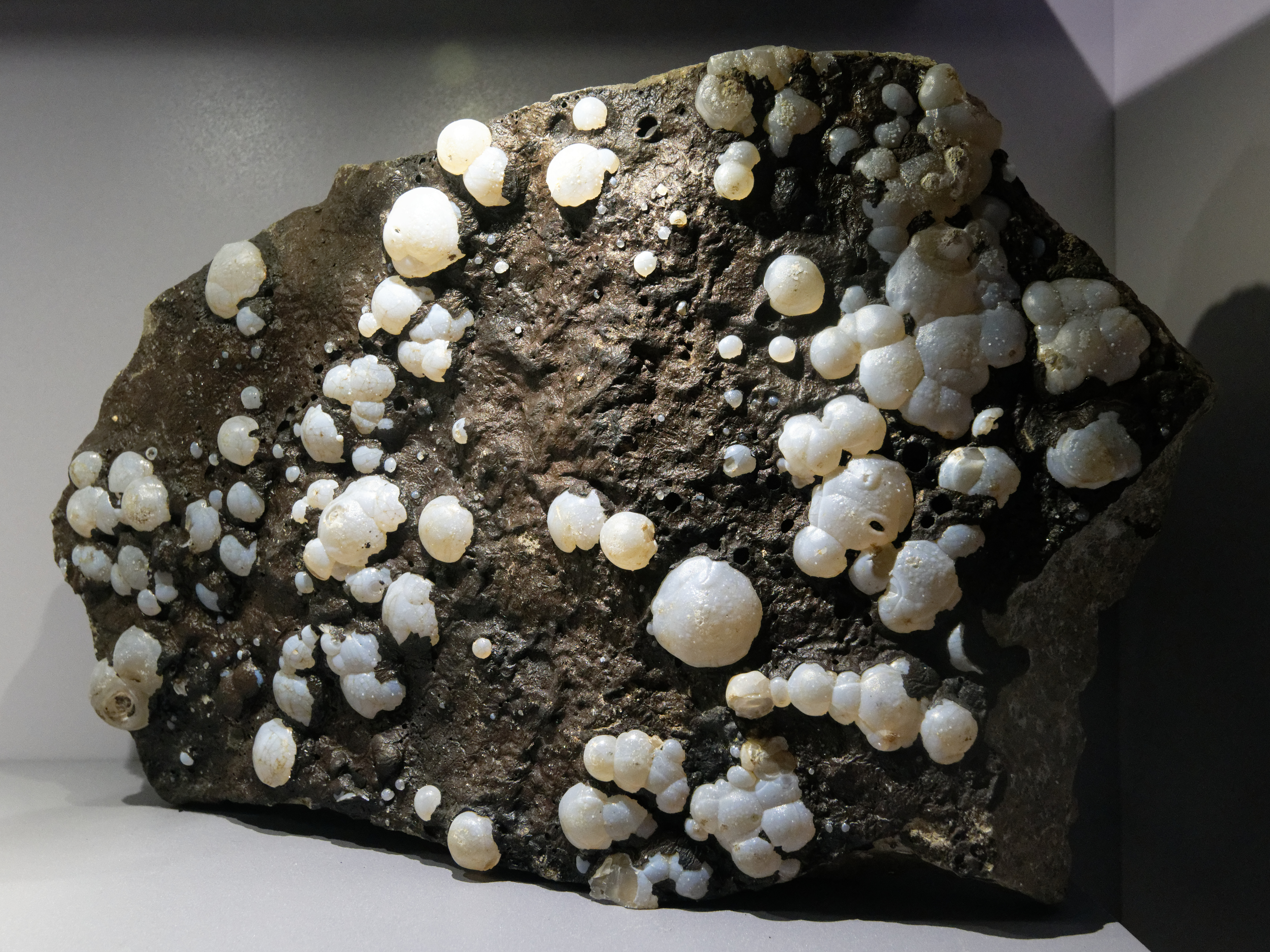 Opal-CT on bituminous limestone from Lussat, France. Gallery of Mineralogy and Geology of the French National Museum of Natural History in Paris.